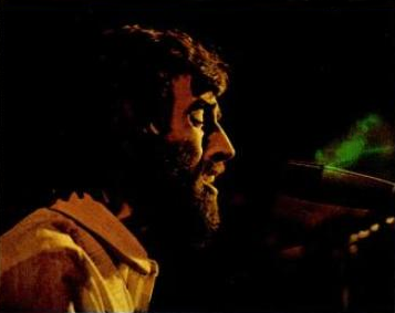 Trade ad for The Band's album Rock Of Ages. To better adapt it to his respective Wikipedia article, the ad was cropped and cleaned in a graphics editing program. The original can be viewed at the source below.